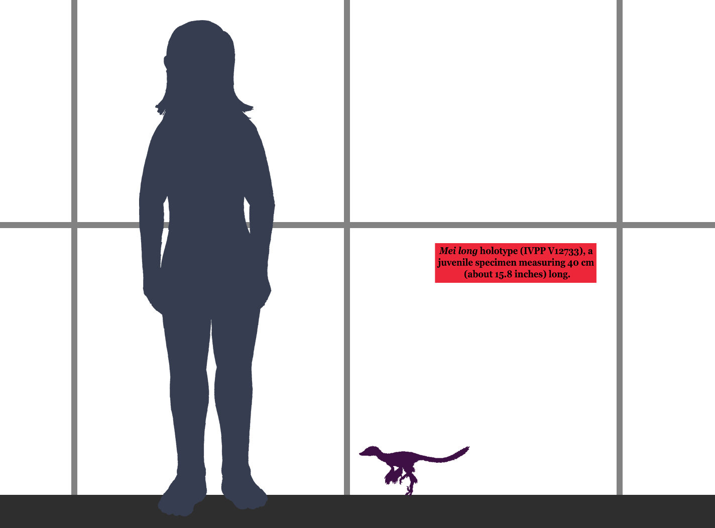 Size comparison between the holotype specimen of the troodontid Mei long and a human. Note that the Mei long holotype are a juvenile animal. An adult might could have been significantly larger. External links Photo of the holotype skeleton.